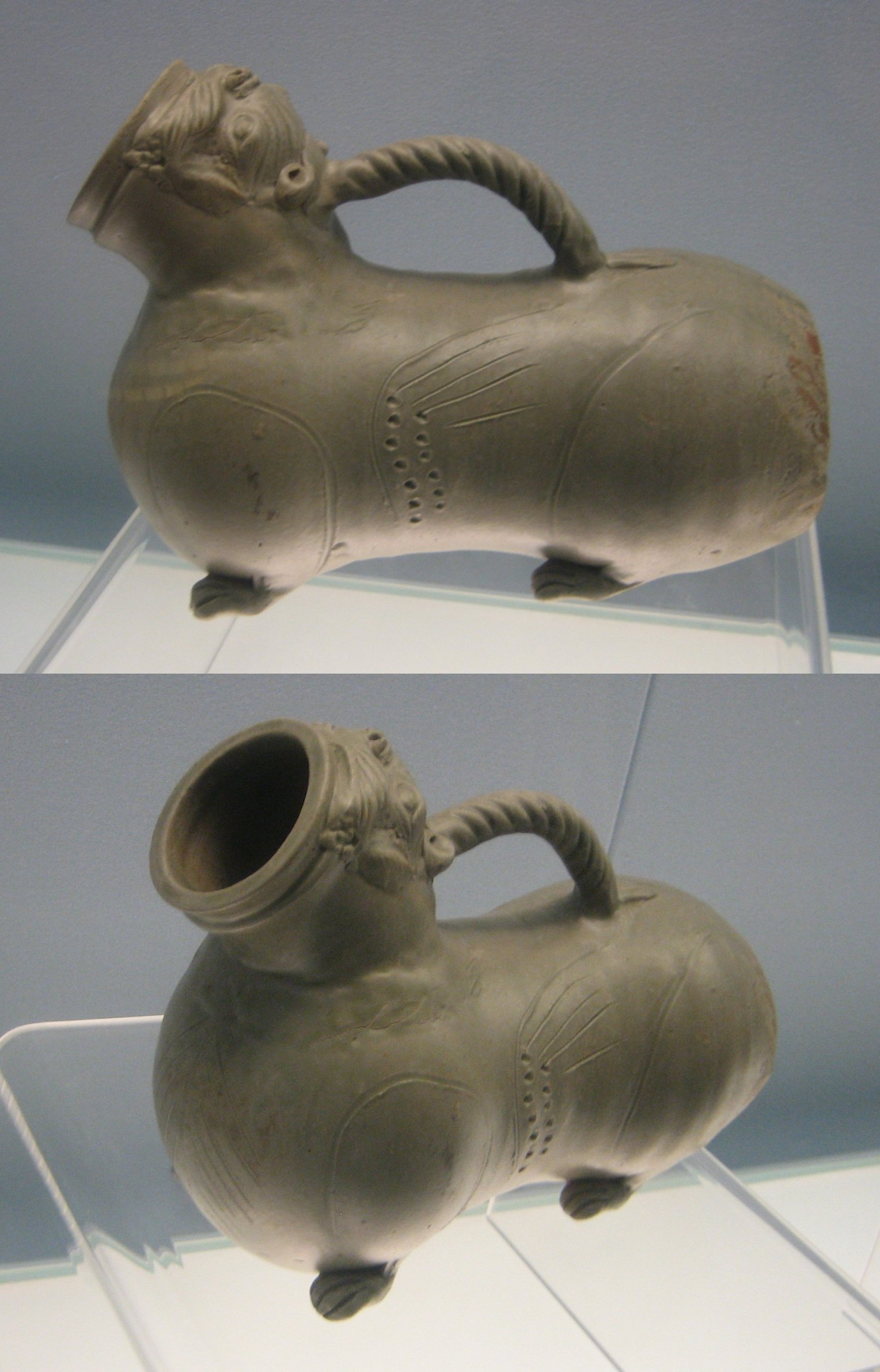 Celadon huzi (chamber pot), Western Jin, 265-317 CE, Shanghai Museum